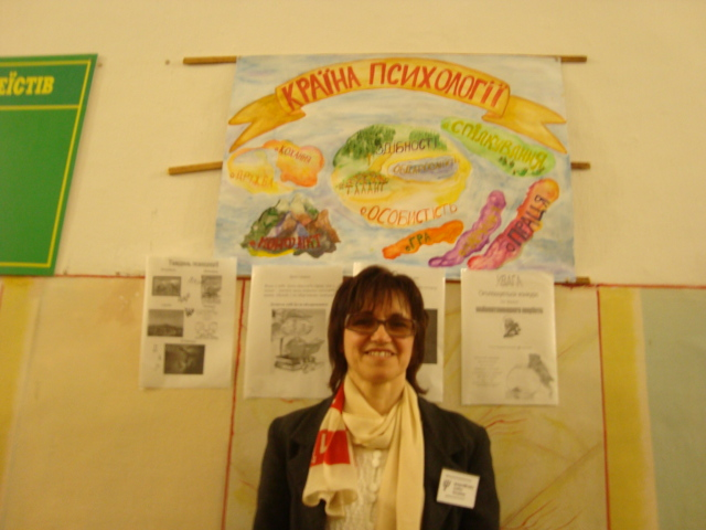 Практичний психолог закладу "Вінницький технічний ліцей" 2014р., Вінниця, ВТЛ